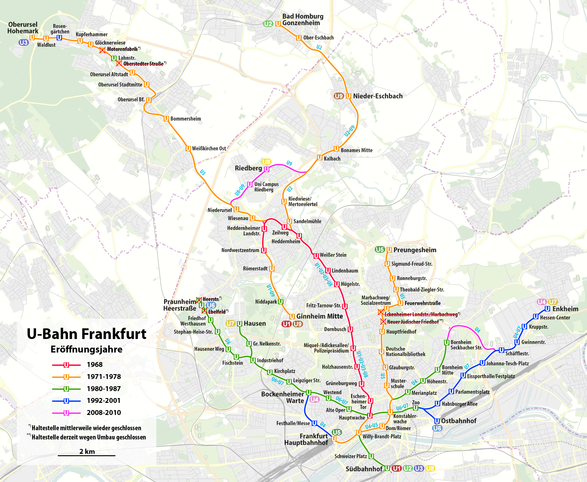 Frankfurt Subway network map, colors indicate the development of the system.